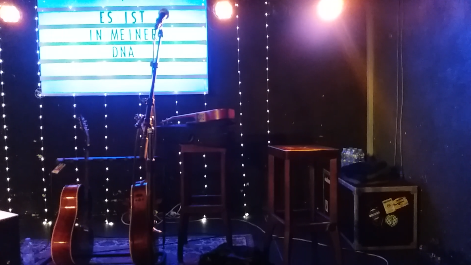 Stage during Madeline Junos Acoustic Tour 2019 at The Tube, Düsseldorf.